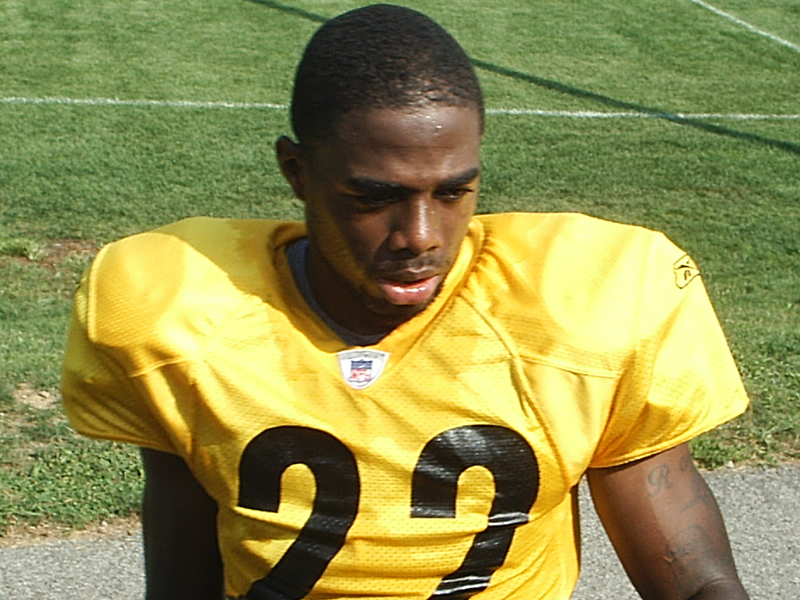 Photo of William Gay at Steelers training camp